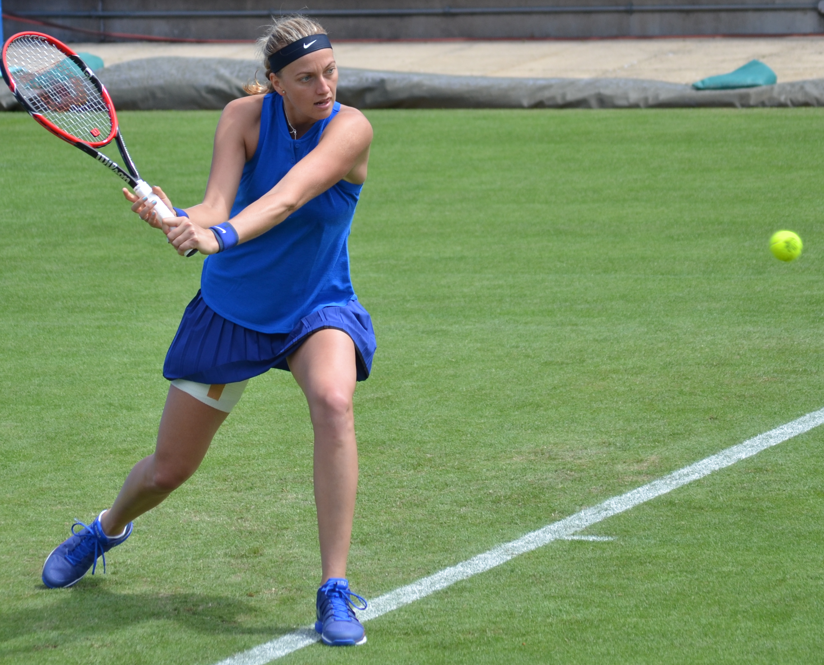 Petra Kvitová at the Aegon International 2016